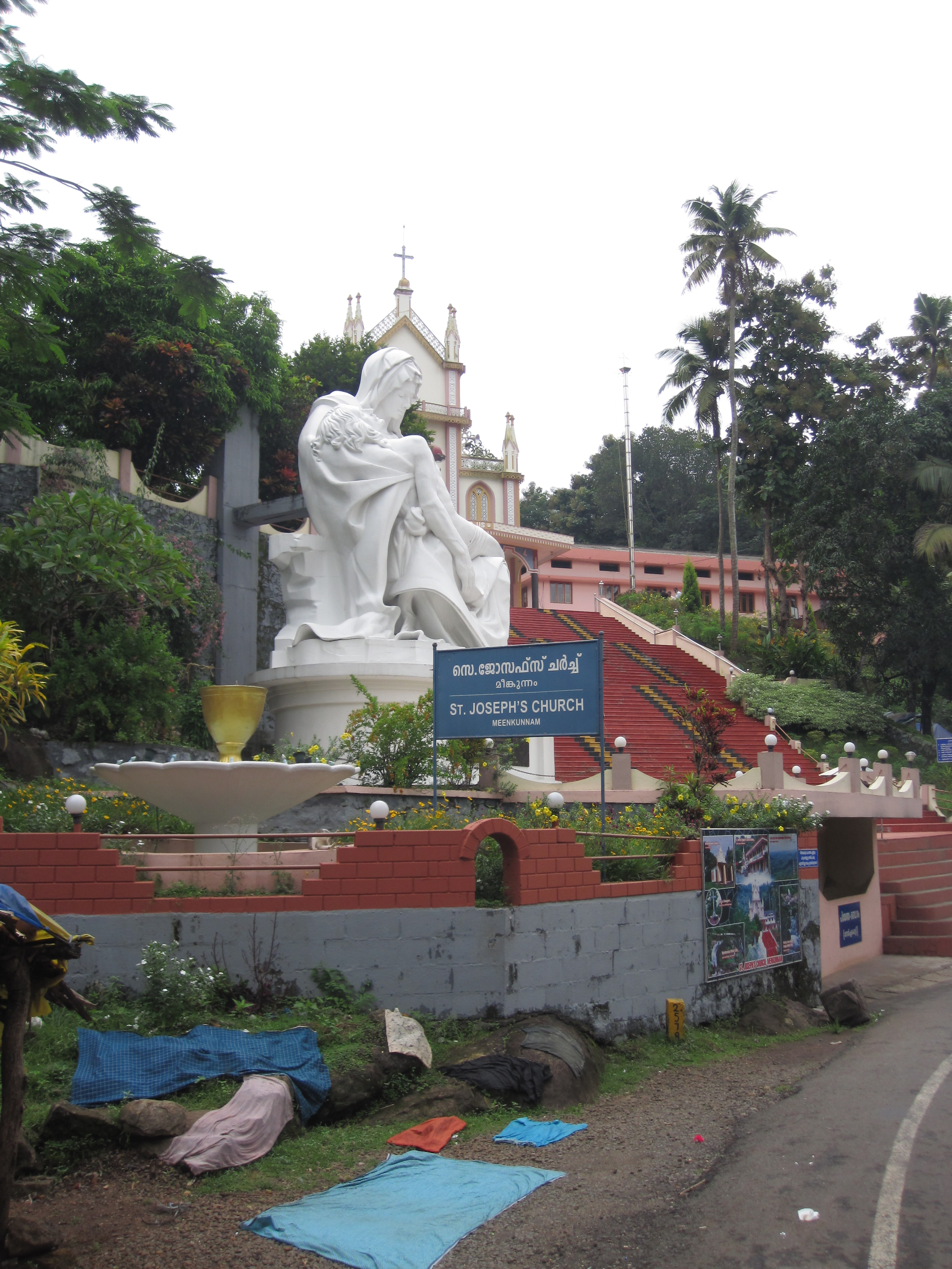 Syro-Malabar Catholic Church at Meenkunnam near Muvattupuzha